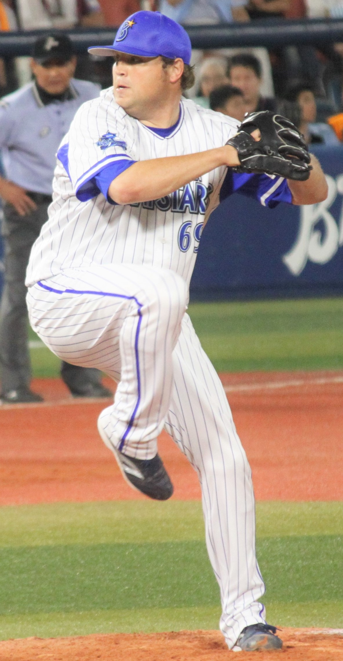 Mike Zagurski, pitcher of the Yokohama DeNA BayStars, at Yokohama Stadium